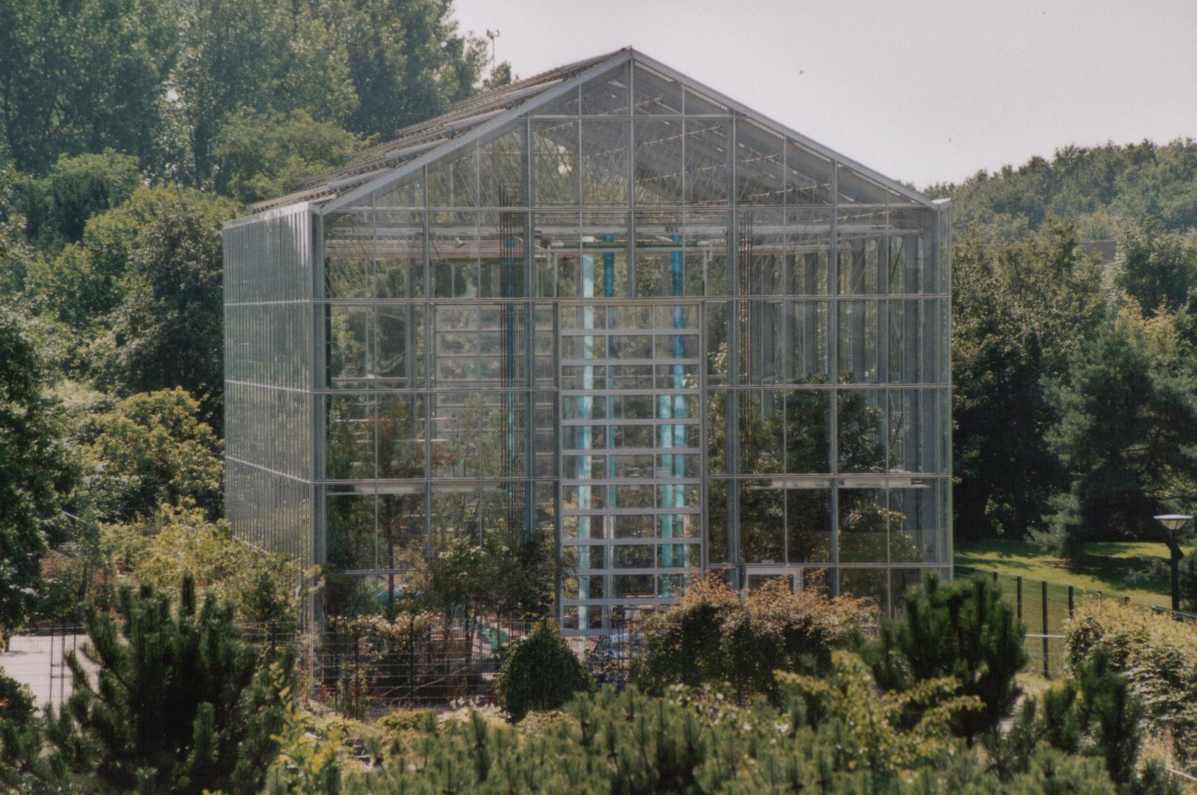 Greenhouse "Orangerie" in the botanical garden Düsseldorf